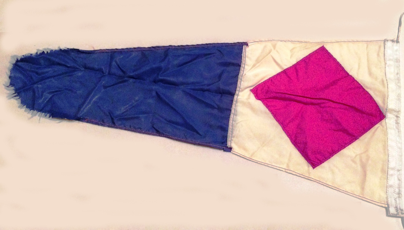 Israel Defense Forces